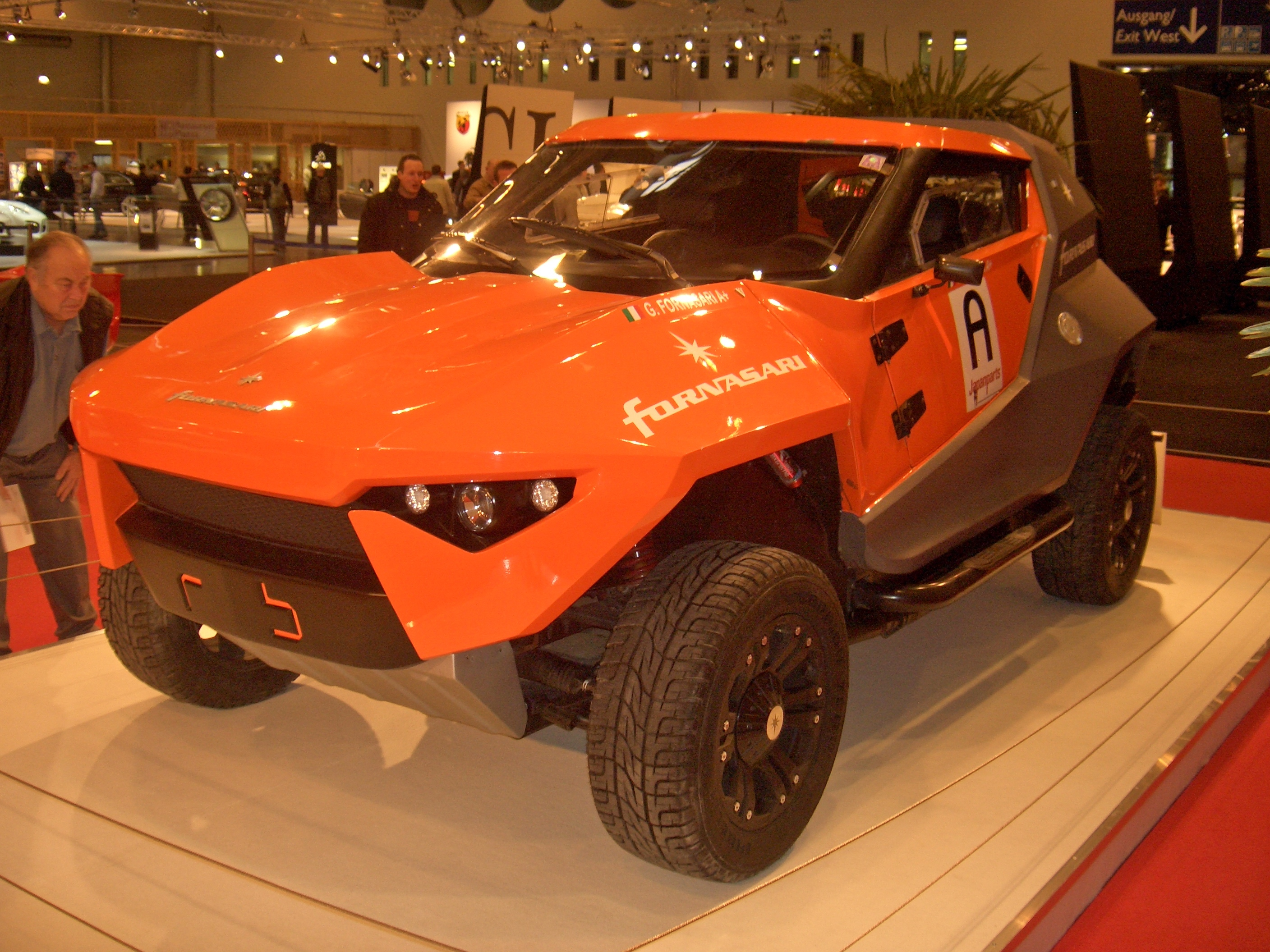 Fornasari Racing Buggy, concept car with 7.0 litre Chevrolet V8 engine, 2008, seen at MOTOR SHOW ESSEN 2010